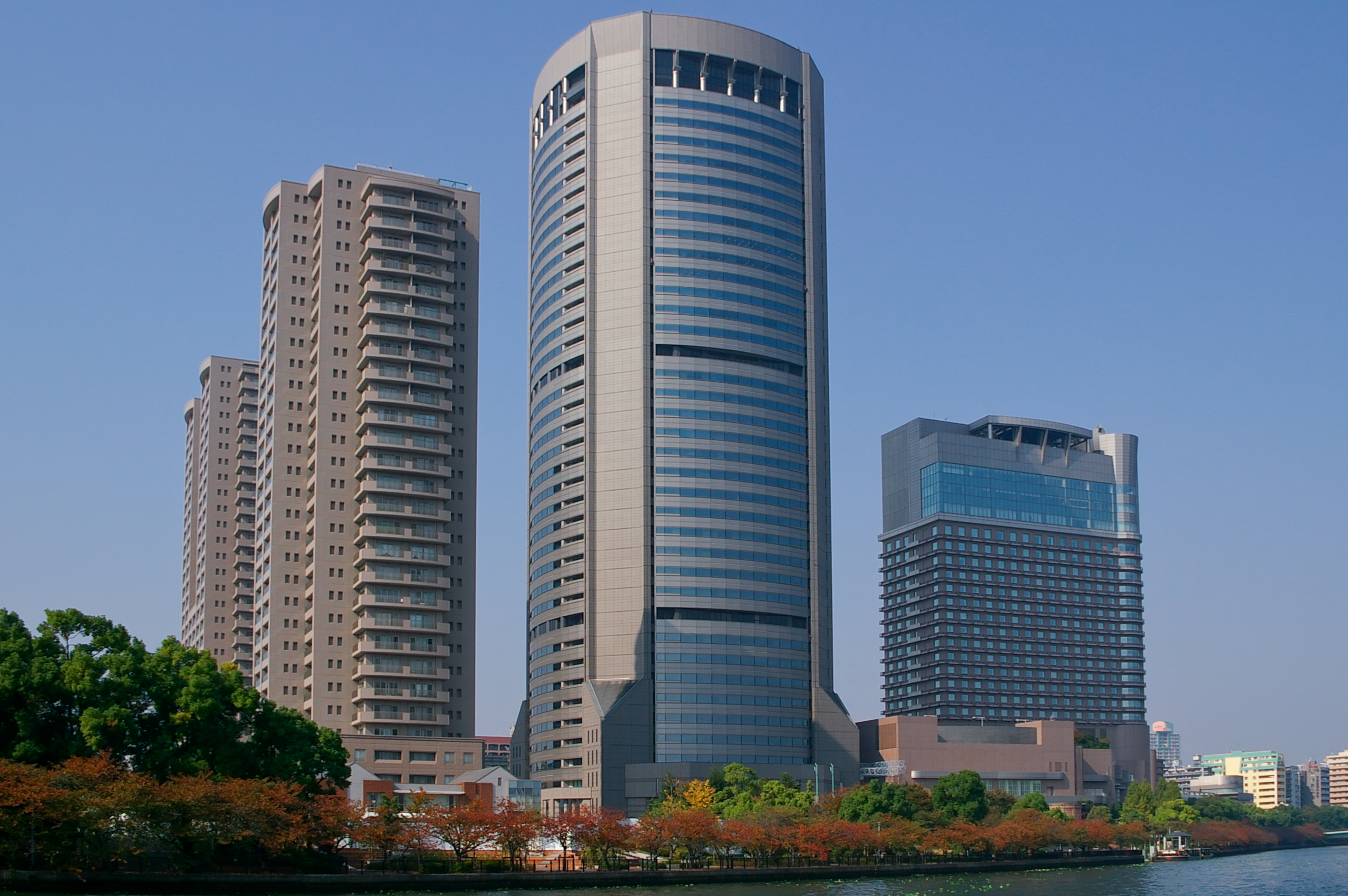 Photograph of the panoramic view of Osaka Amenity Park in Kita-ku, Osaka, Osaka Prefecture, Japan.